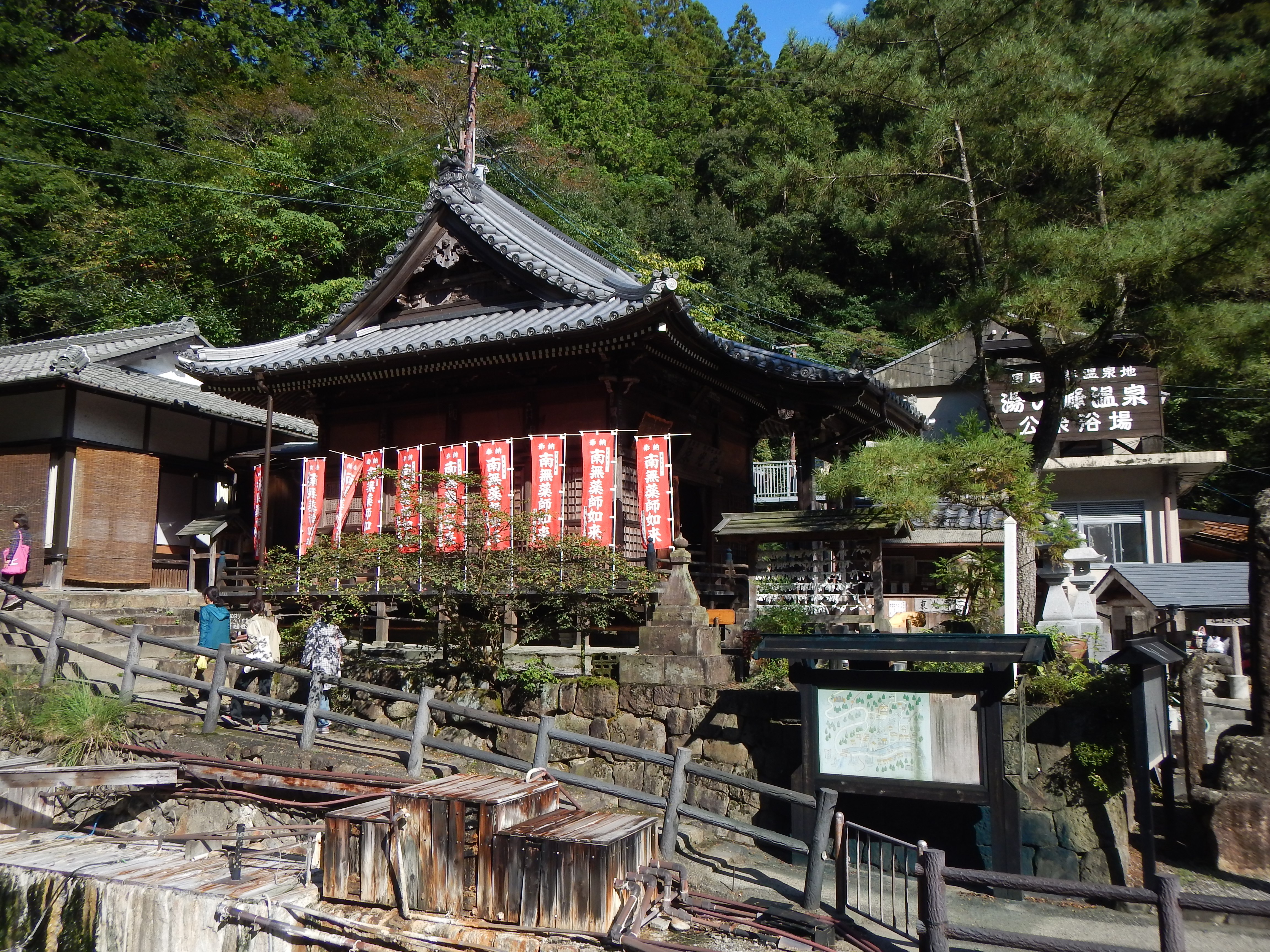 temple